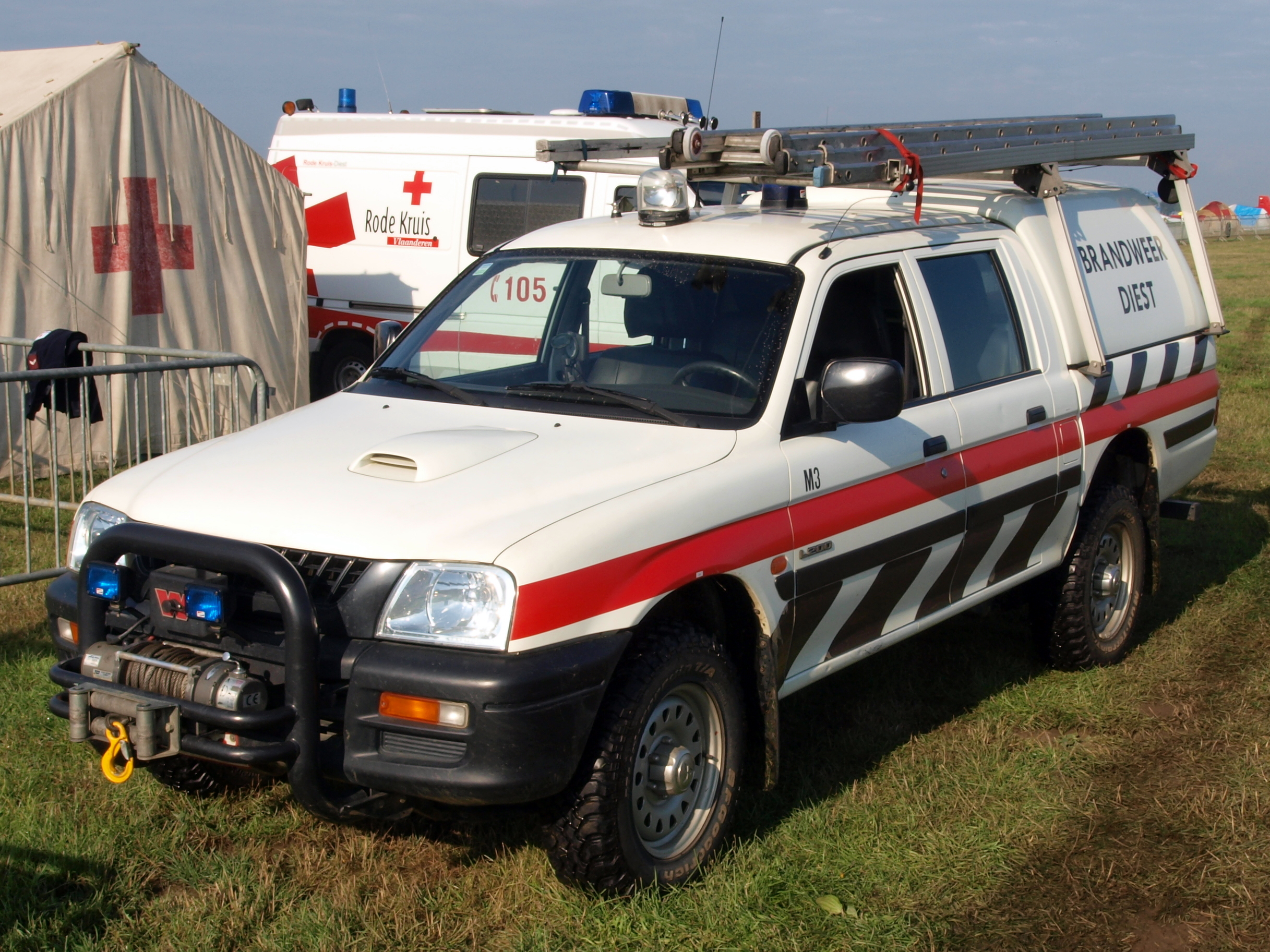 Photographed at The International Oldtimer Fly and Drive In 2010, Schaffen-Diest, Belgium.